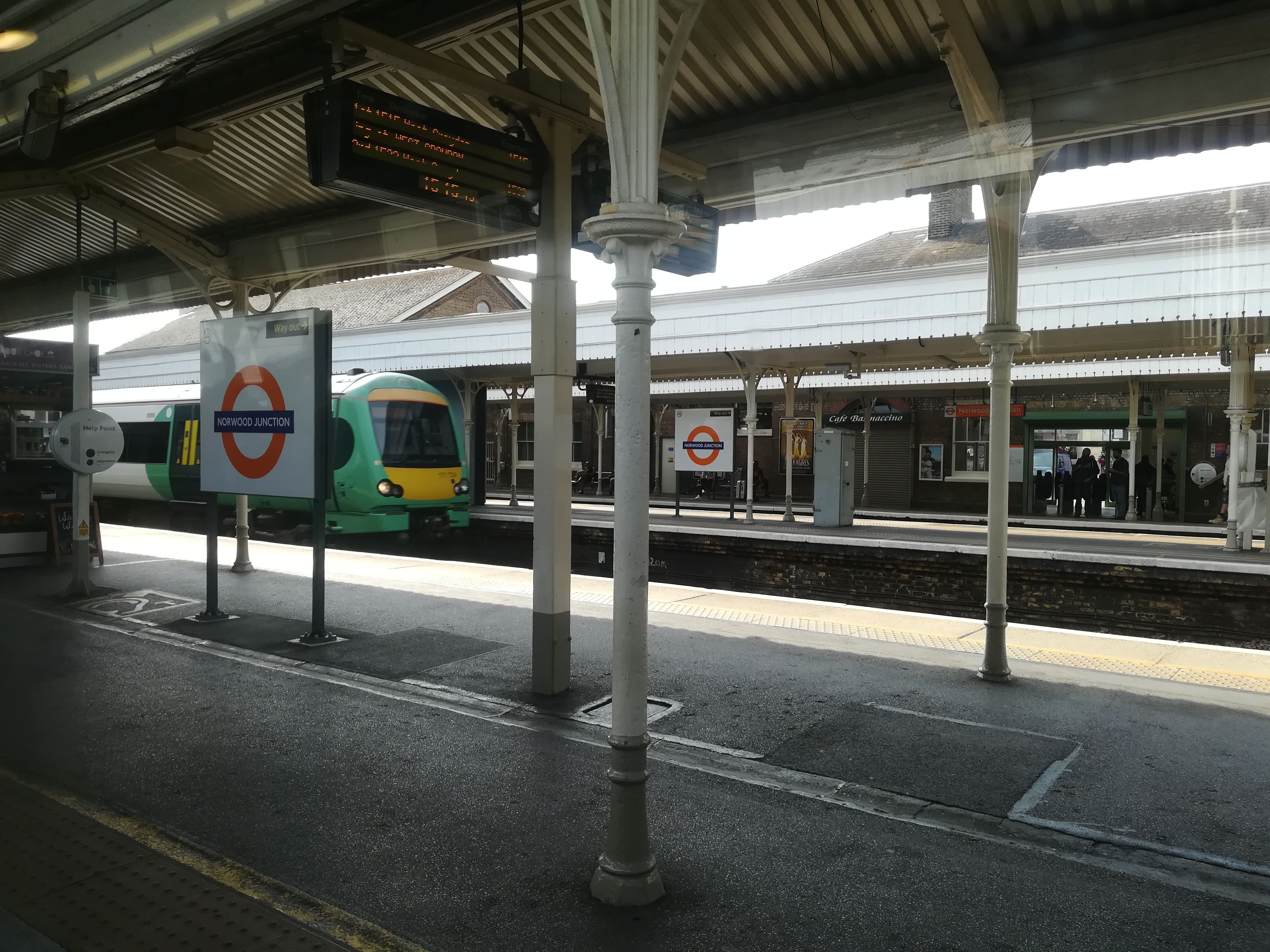 Norwood Junction train station in Croydon, South london, taken from a train stationary on platform 6